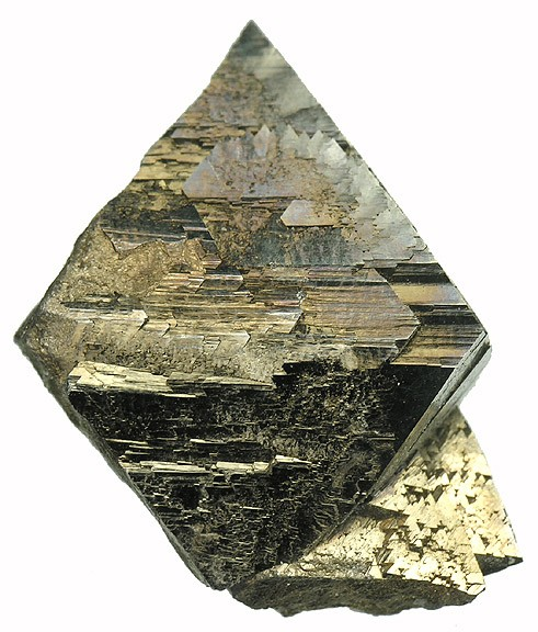 Arsenopyrite Locality: Yaogangxian Mine, Yizhang County, Chenzhou Prefecture, Hunan Province, China (Locality at ) Size: 2.7 x 2.0 x 1.7 cm. This piece features a lustrous, doubly-terminated golden-silver colored crystal of Arsenopyrite with a pair of sidecar crystals at the base.